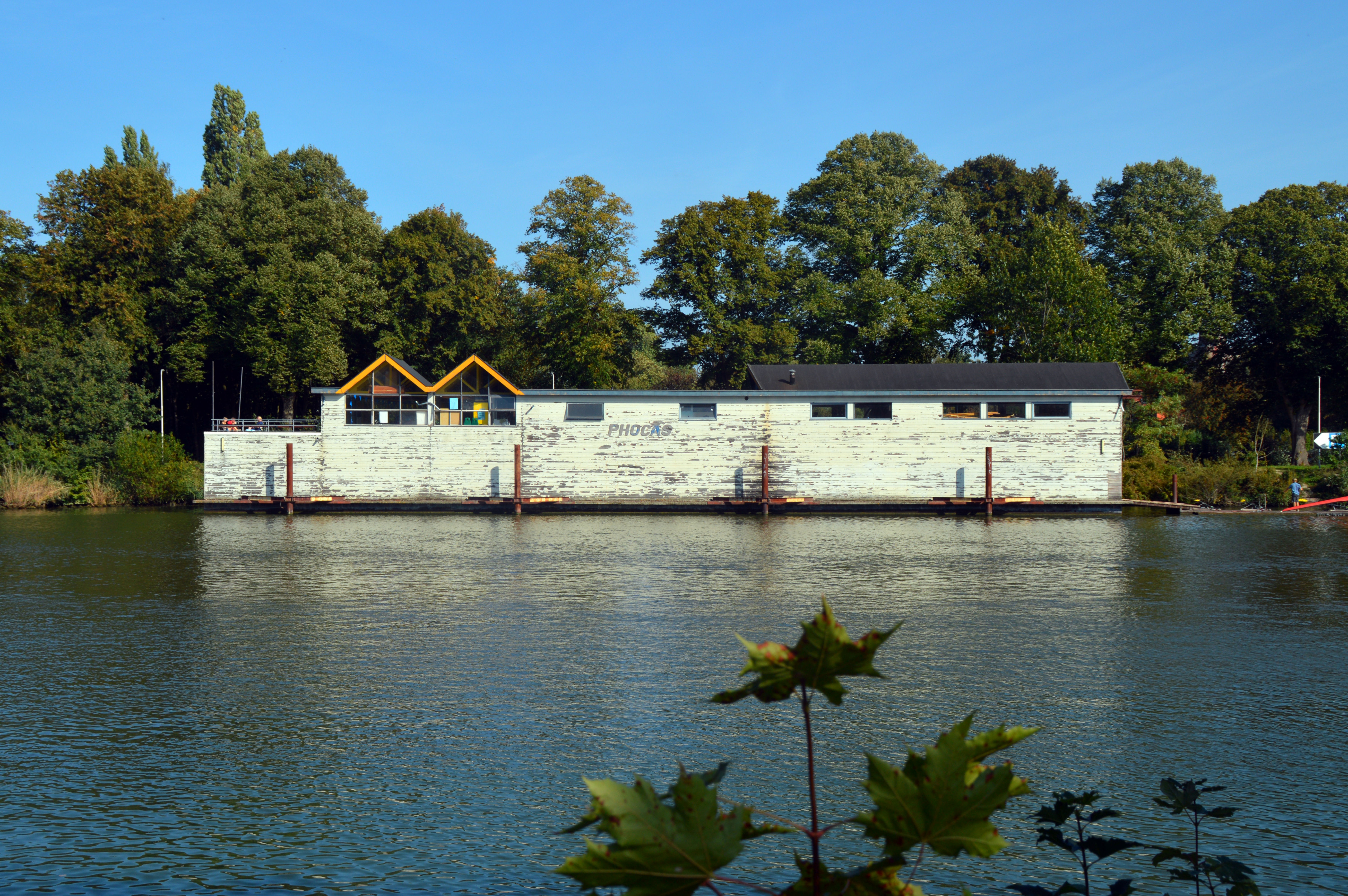 Boat house Nijmegen student rowing club Phocas on the Maas Waal channel Hatert, Nijmegen